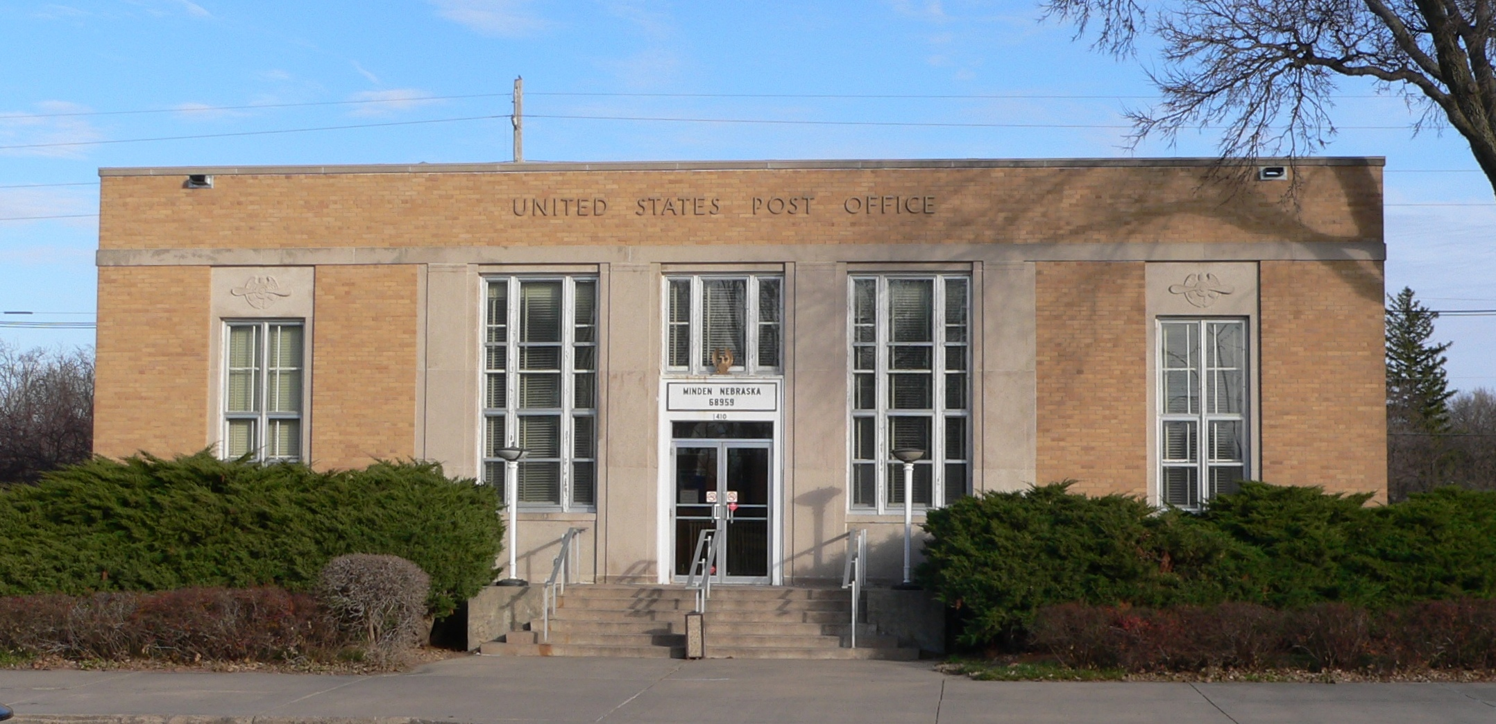 U.S. Post Office in Minden, Nebraska, seen from the west. The building was designed in the Moderne style by architect Louis A. Simon and built in 1936. It is listed on the National Register of Historic Places, and continues to serve as the post office for Minden.